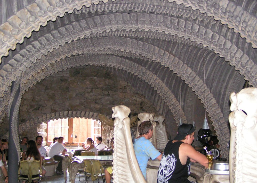 Giger Bar in Gruyeres, Switzerland. The interior shows the biomechanical designs that made H. R. Giger famous. Taken by Ben W Bell 30 July 2005.